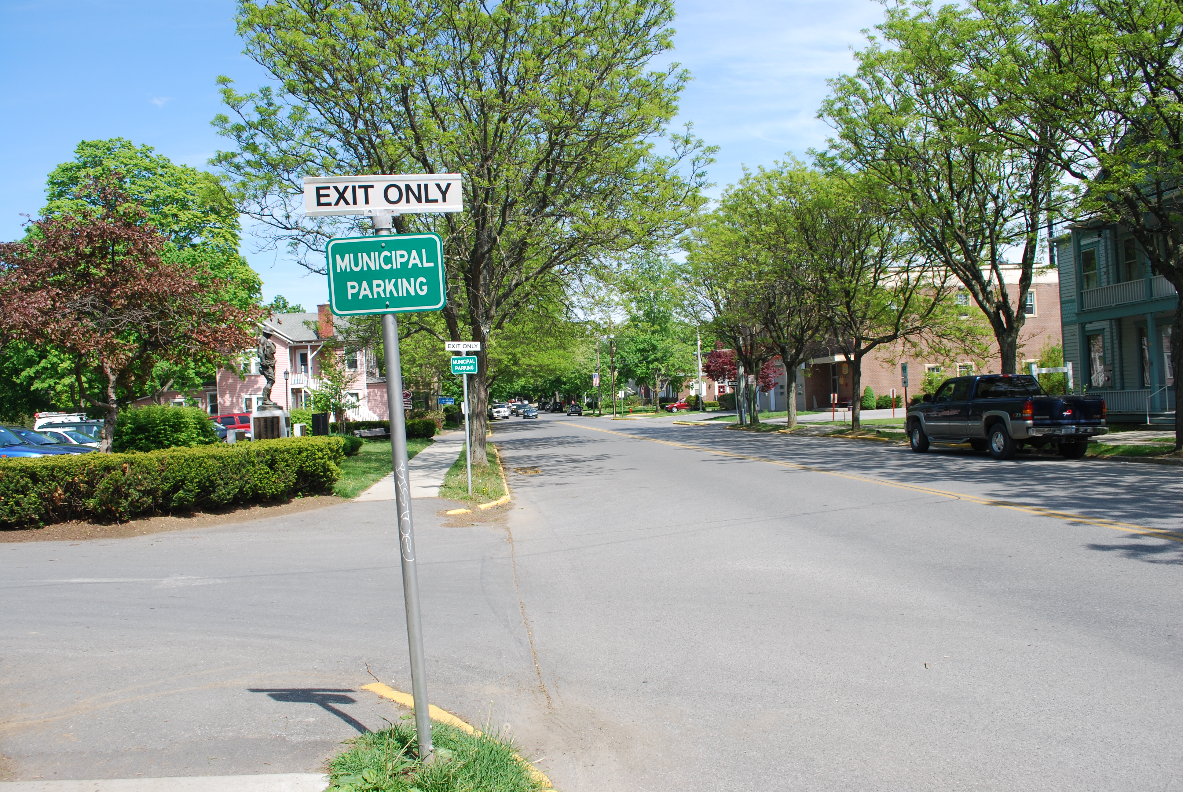 New York State Route 308 in or near the village of Rhinebeck, New York